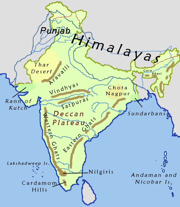 Hills and elevated regions of India. Not to scale